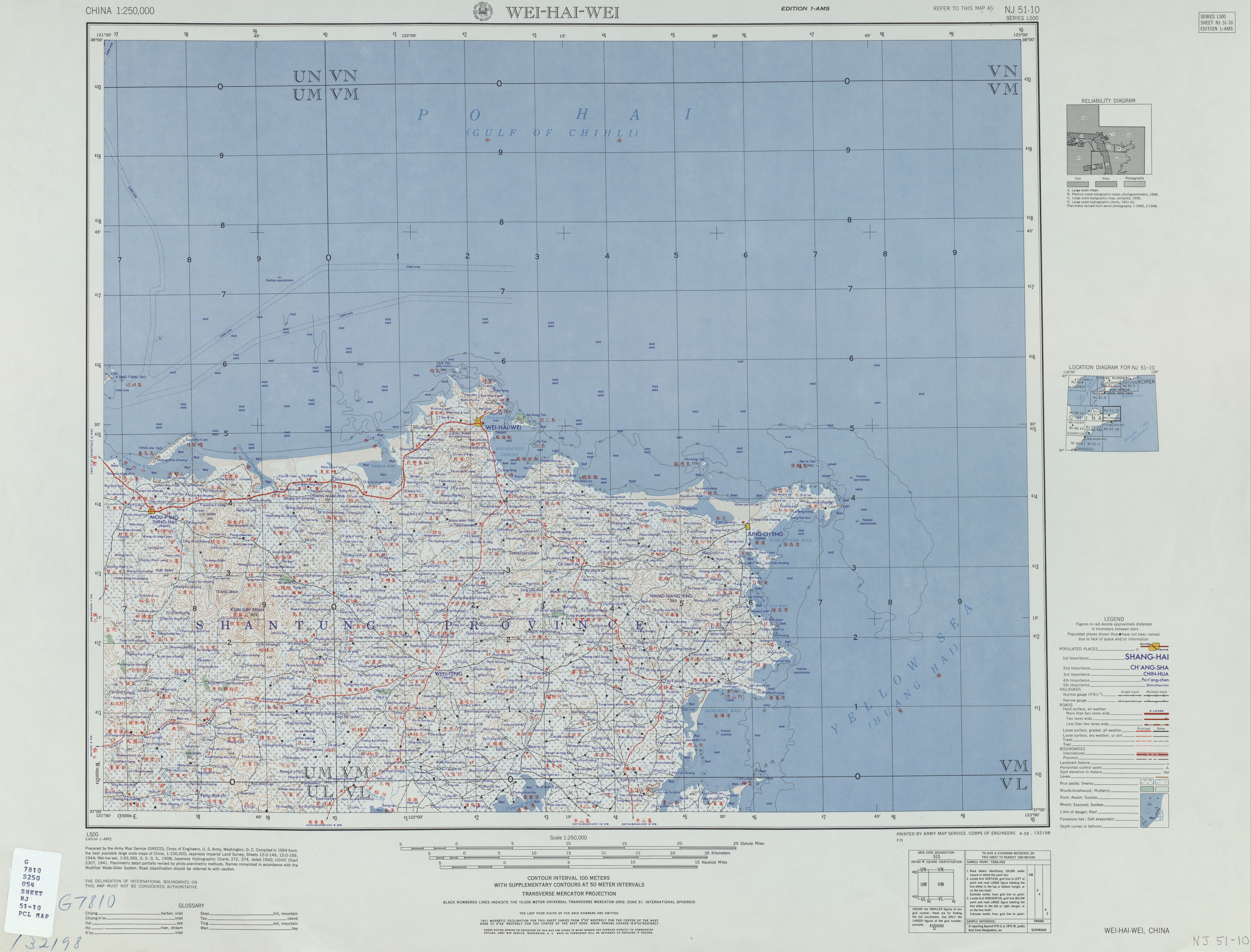 Map of Weihai (Wei-hai-wei) area, Shandong